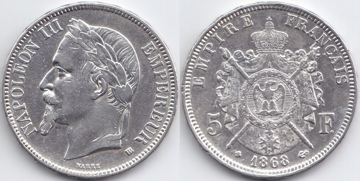 France, coin 5 francs, 1868 - Napoleon III. Silver 900, diameter 37.3 mm, thickness 2.8 mm, weight 25.02 g. It was struck in Strasbourg. Sign on the edge: "DIEU * PROTEGE * LA * FRANCE *****".